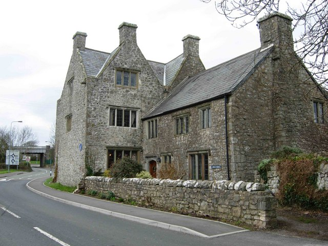 The Great House, Llantwit Major The Great House, Ty Mawr in Welsh, is a late 15th century house with 17th century additions. It incorporates a number of defensive features and was associated with the Nicholl family, prominent local landed gentry.